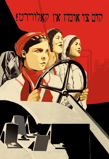 "Drive to the Collective Farm!" - Soviet Yiddish poster features modern Jewish women driving a tractor, contrasting a domestic vision of the traditional blessing over Shabbat candles